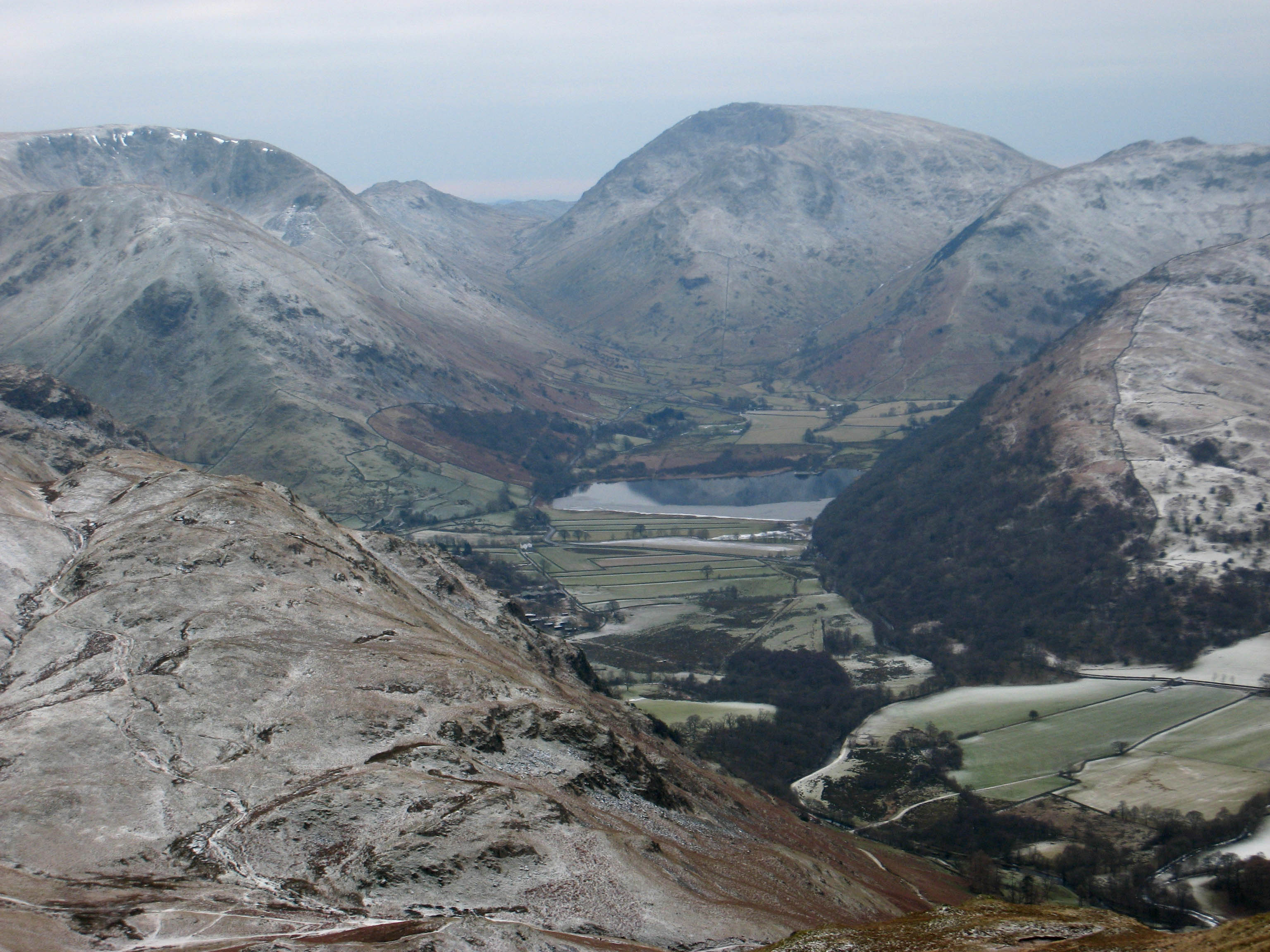 Brothers Water seen from the North (Place Fell)